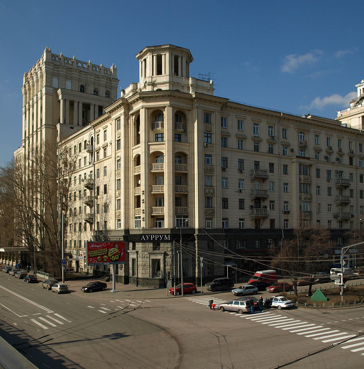 1/4, Tarasa Schevchenko Emnamkment, Moscow (from Borodinsky Bridge)